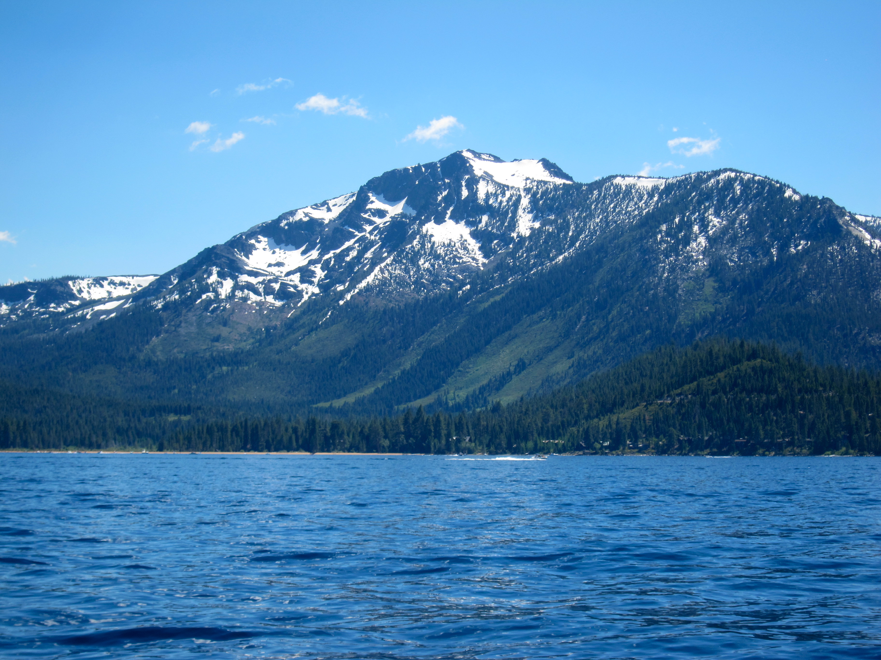 Mount Tallac, Lake Tahoe Basin Management Unit, Lake Tahoe, Eldorado National Forest, California